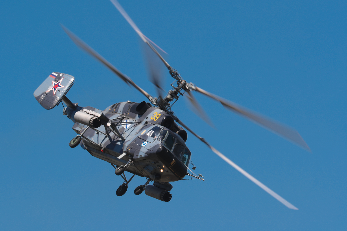 Kamov Ka-29